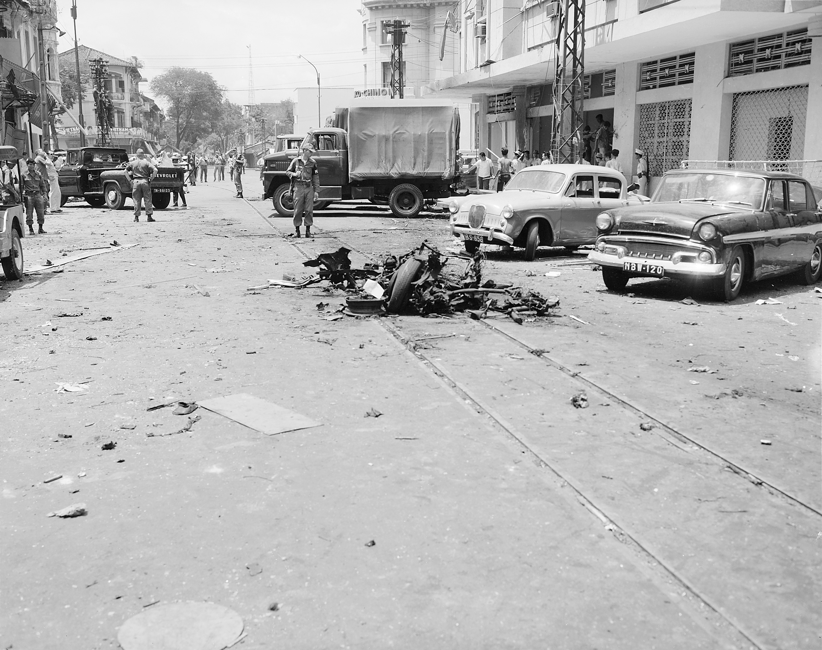 Scene of Viet Cong terrorist bombing in Saigon, Republic of Vietnam. Although the NARA website does not identify the exact bombing, it is believed to be the 30 March 1965 bombing of the US Embassy in Saigon. The scene is very similar to the Life Magazine photo of the event: [1] Additional photos of the bombing such as [2] [3] [4] show identical wreckage and building facades. GabrielF (talk) 19:56, 22 May 2012 (UTC)